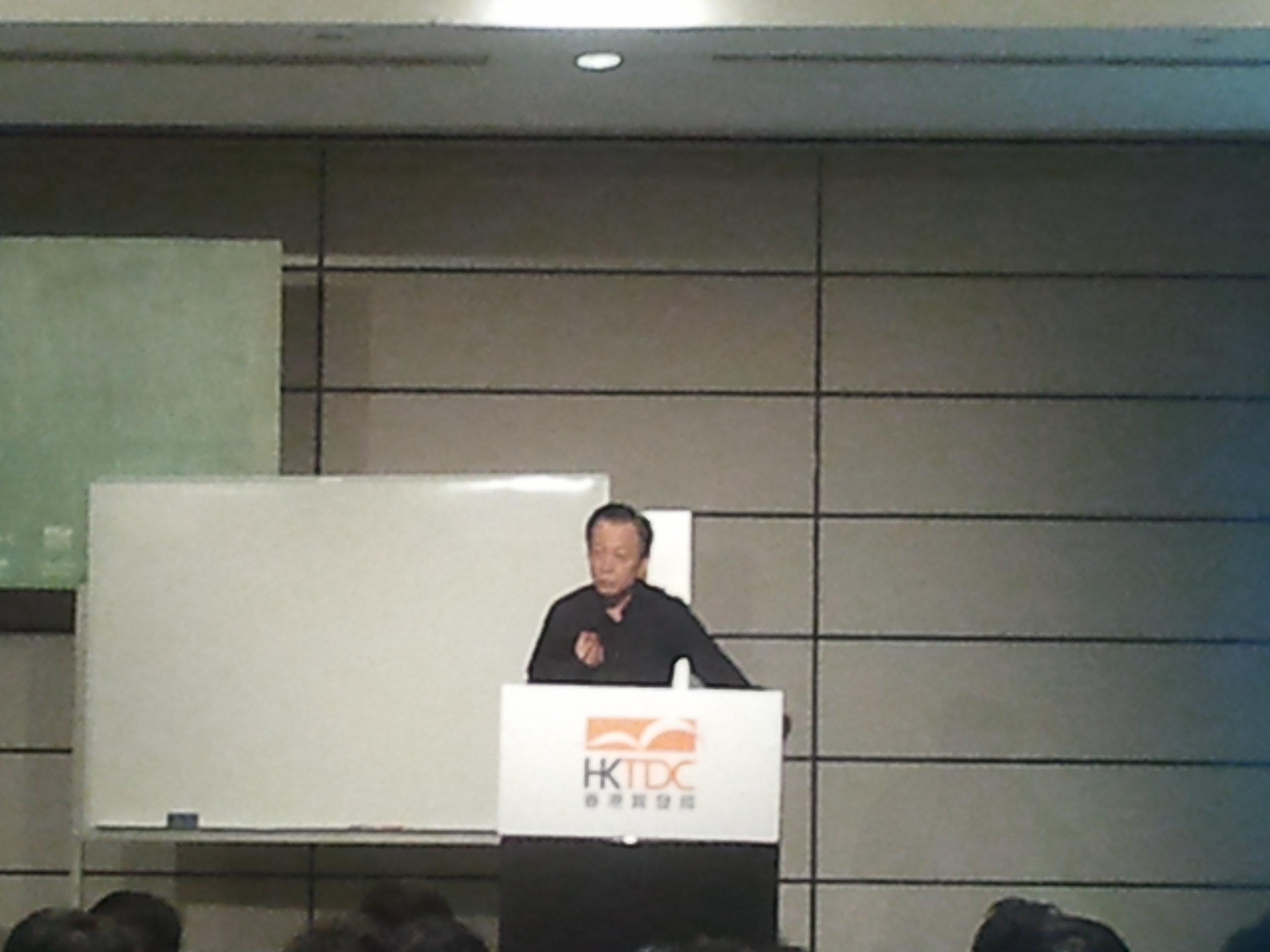 易中天在香港會議及展覽中心發表演講